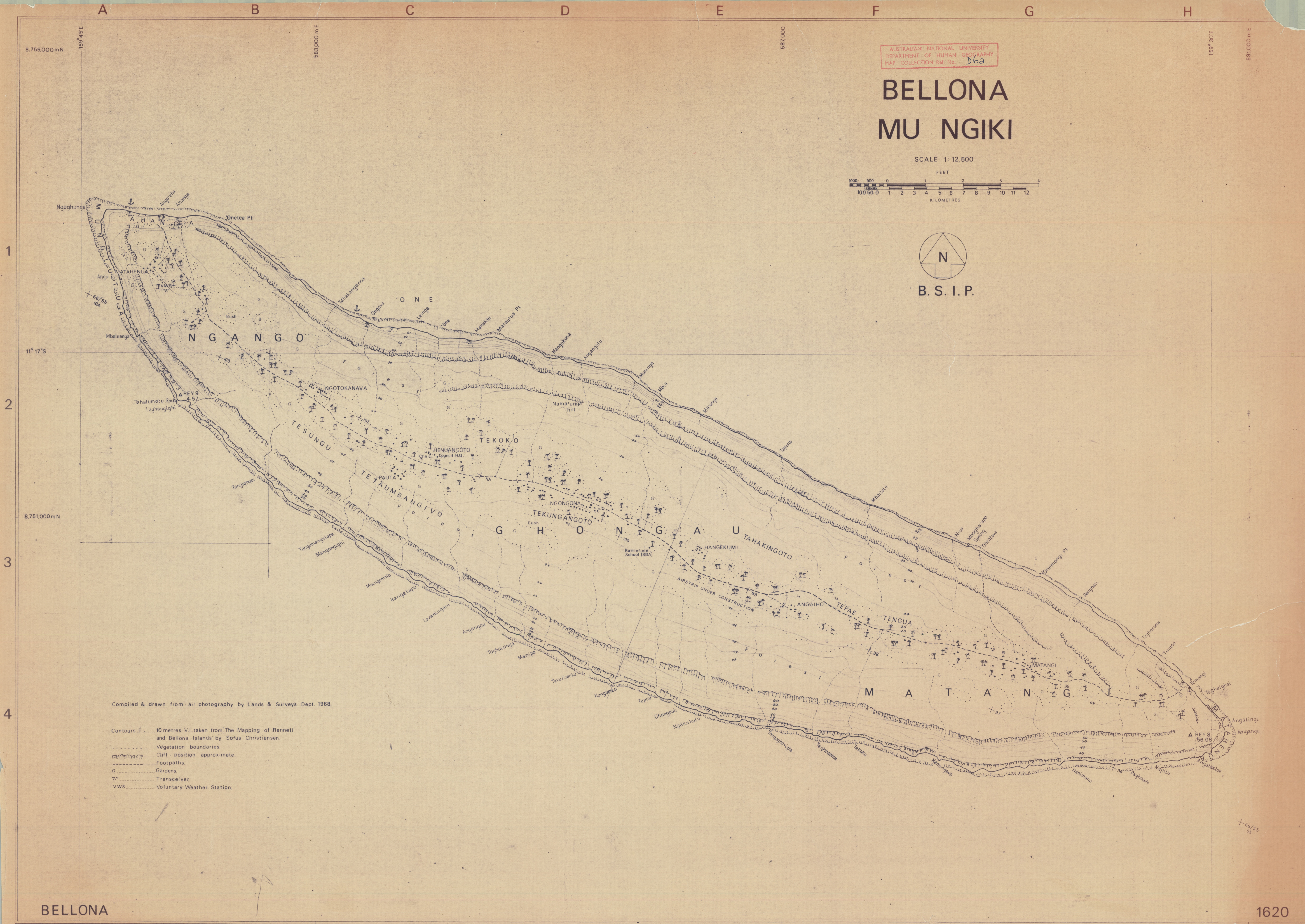 sketch map of Bellona Island, Solomon Islands